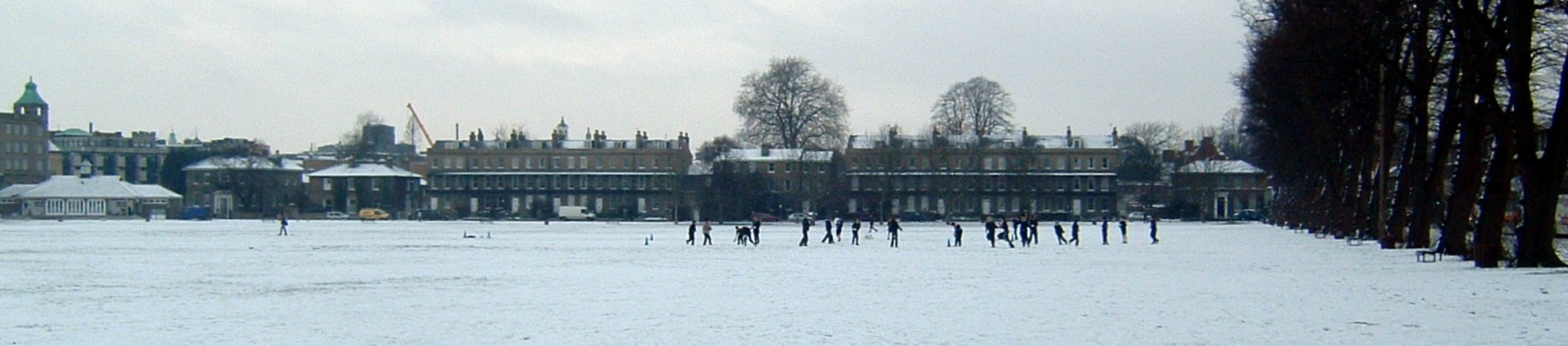 Looking towards Park Terrace during snow in March 2005. On the left Hobbs Pavilion is visible, named after Jack Hobbs the English cricketer.